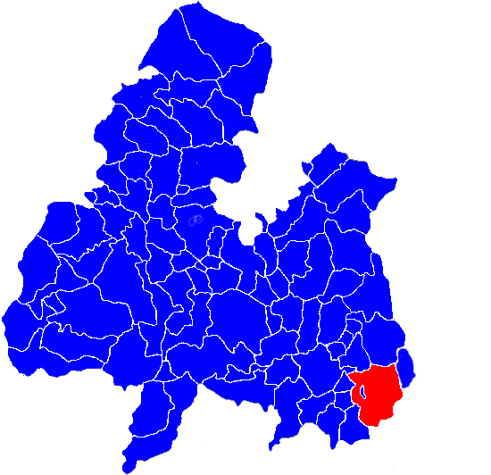 Based on this map